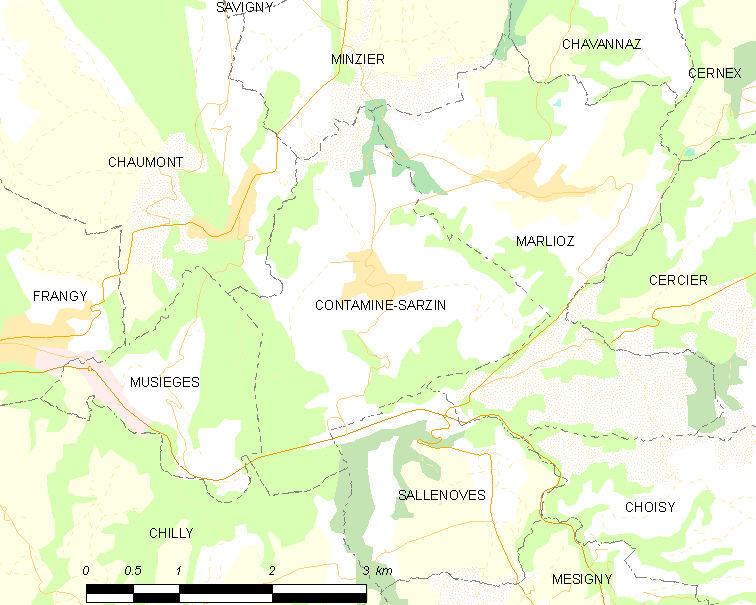 Map of French municipality Contamine-Sarzin